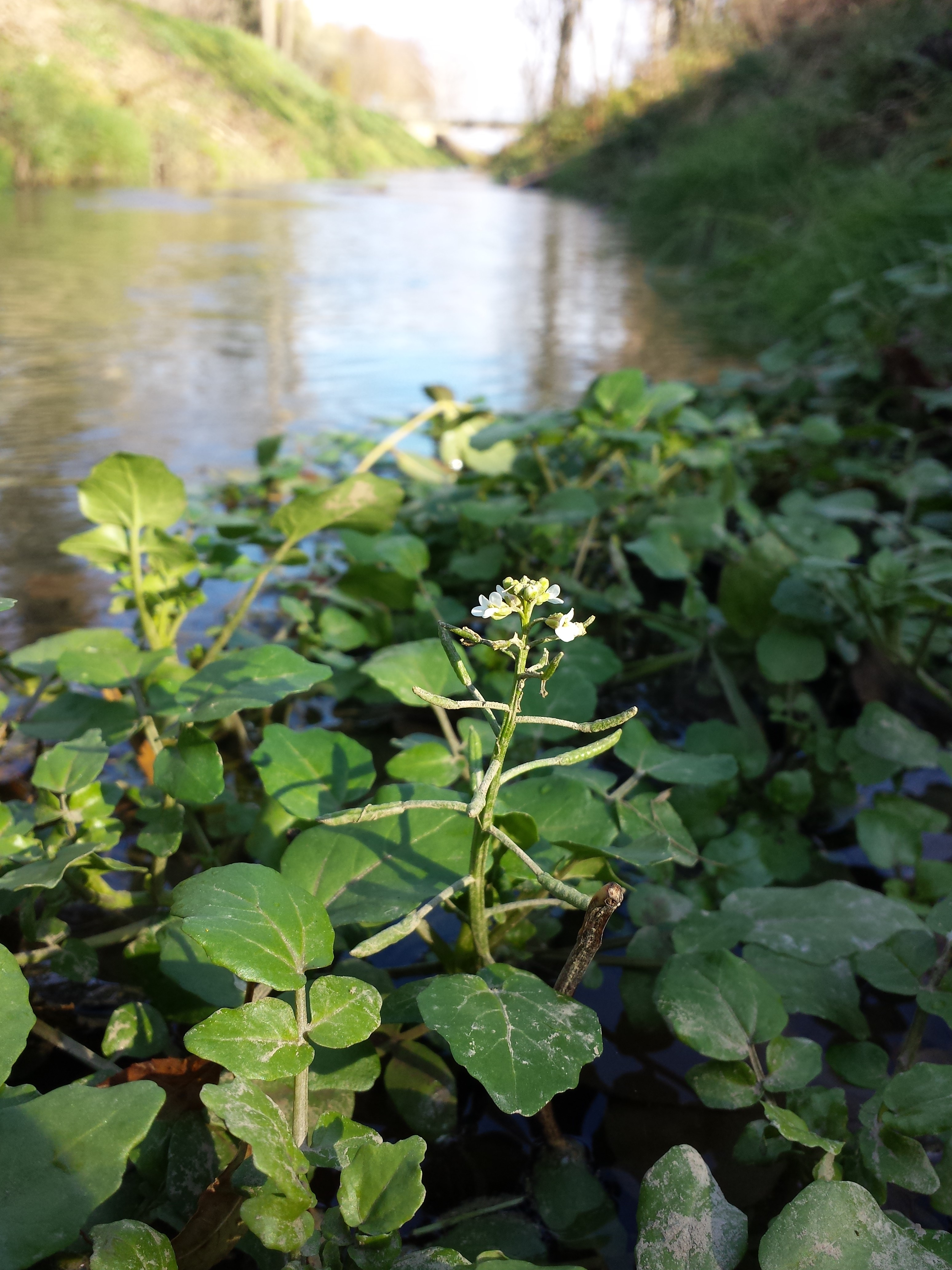 Habitus Taxonym: Nasturtium officinale ss Fischer et al. EfÖLS 2008 ISBN 978-3-85474-187-9 Location: Senningbach next to Hatzenbach, district Korneuburg, Lower Austria - 180 m a.s.l. Habitat: stream